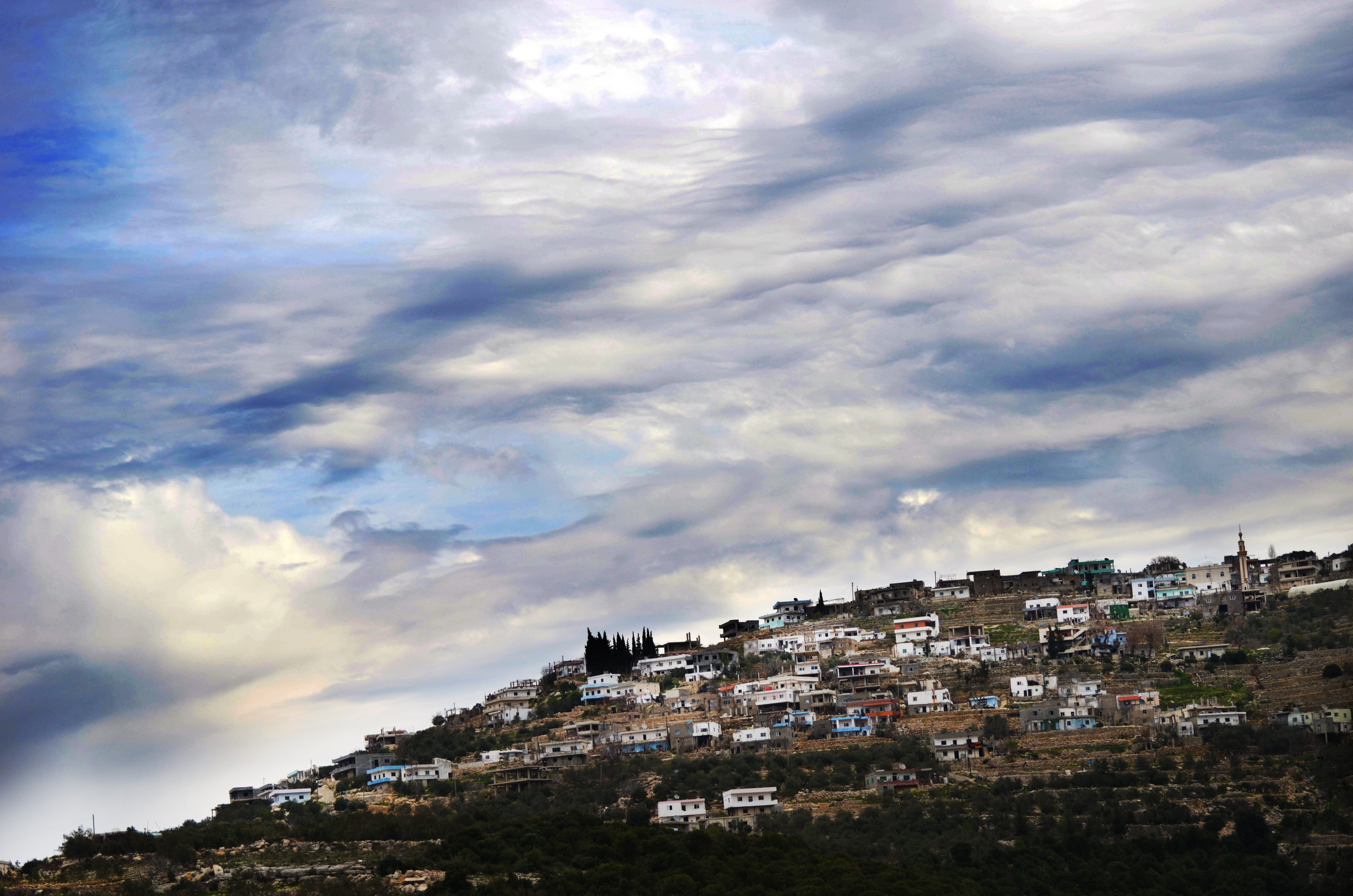 ناحية حرف المسيترة إحدى نواحي سوريا تتبع إداريّاً لمحافظة اللاذقية منطقة القرداحة ومركزها بلدة حرف المسيترة، بلغ تعداد سكان الناحية 6,669 نسمة حسب التعداد السكاني لعام 2004.[1]